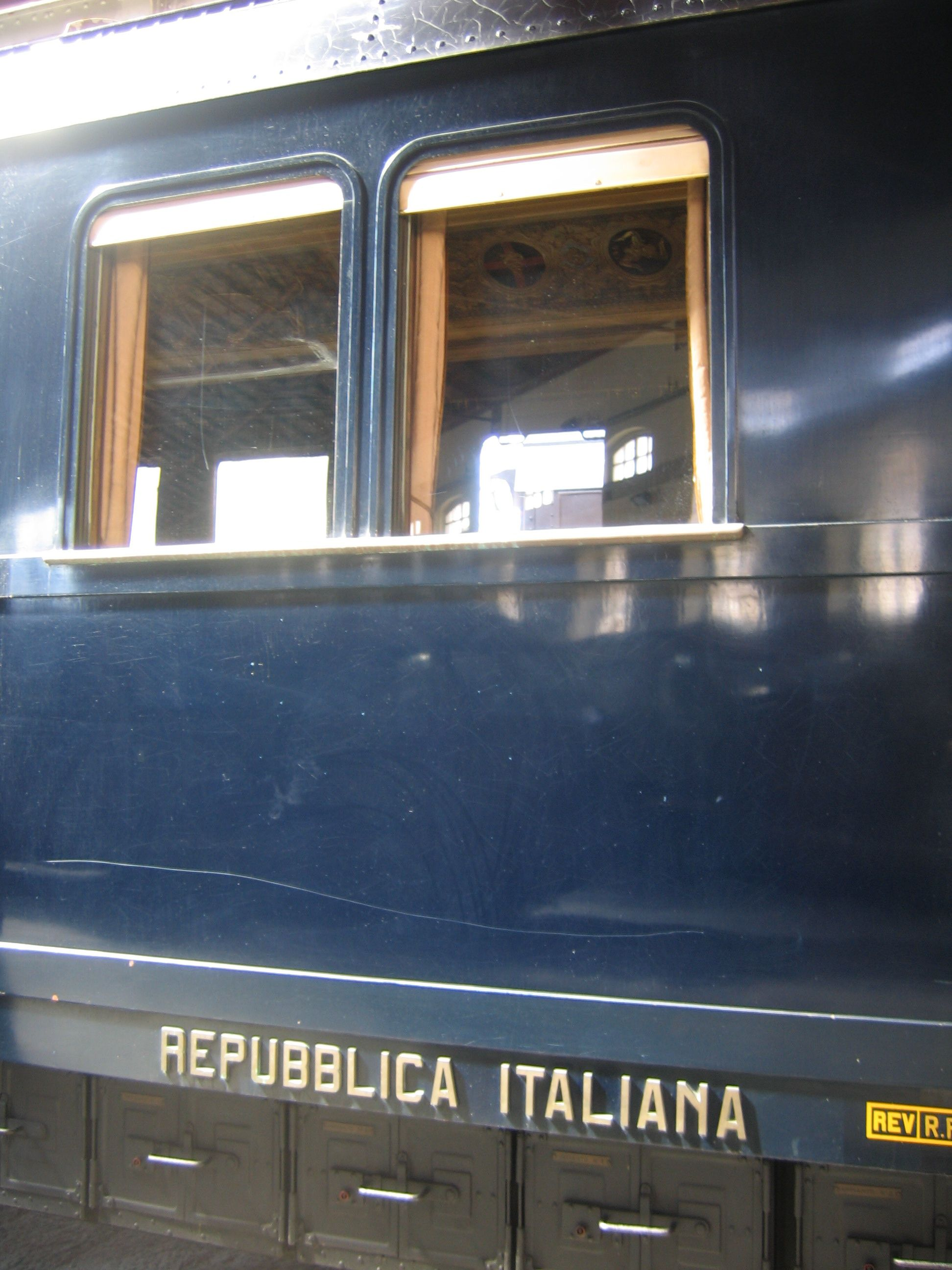 Coach of the Italian Royal train (1929), after 1946 taken over by the Republic. Displayed at the Railway museum Pietrarsa.